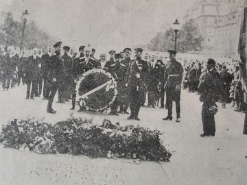 General Miller Paris 1930